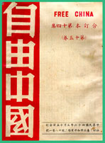 Picture of the Cover of Free China Magazine from